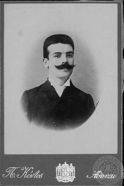 Greek revolutionary Filipos Kapetanopulos from Katranitsa, Greece